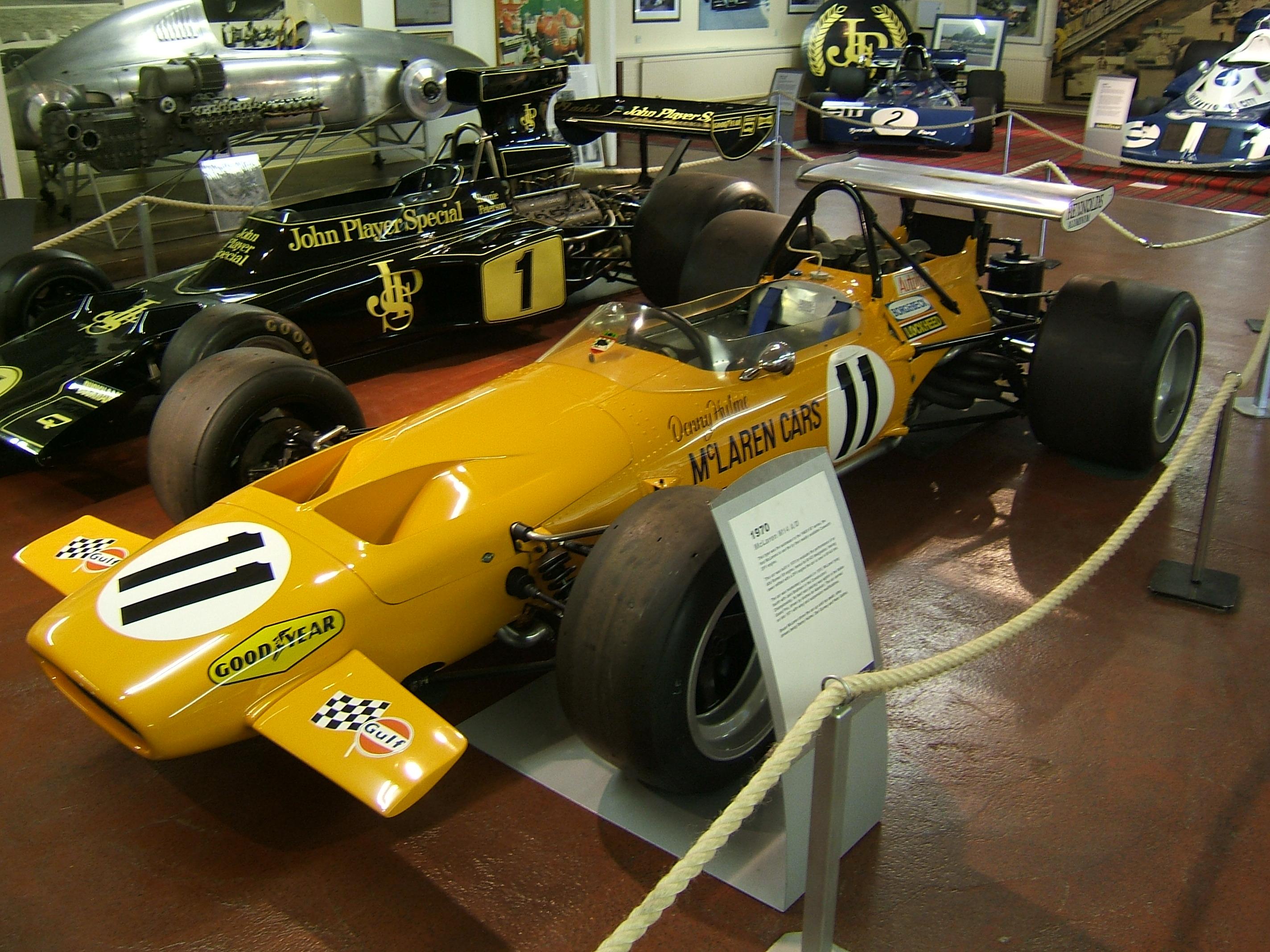 A McLaren M14A/D at the Donington Collection museum, Leicestershire, UK. The car was originally constructed to run with an Alfa Romeo engine in M14D specification, but was reconverted back to the more conventional Cosworth DFV set-up (M14A spec.), hence the A/D nomenclature.